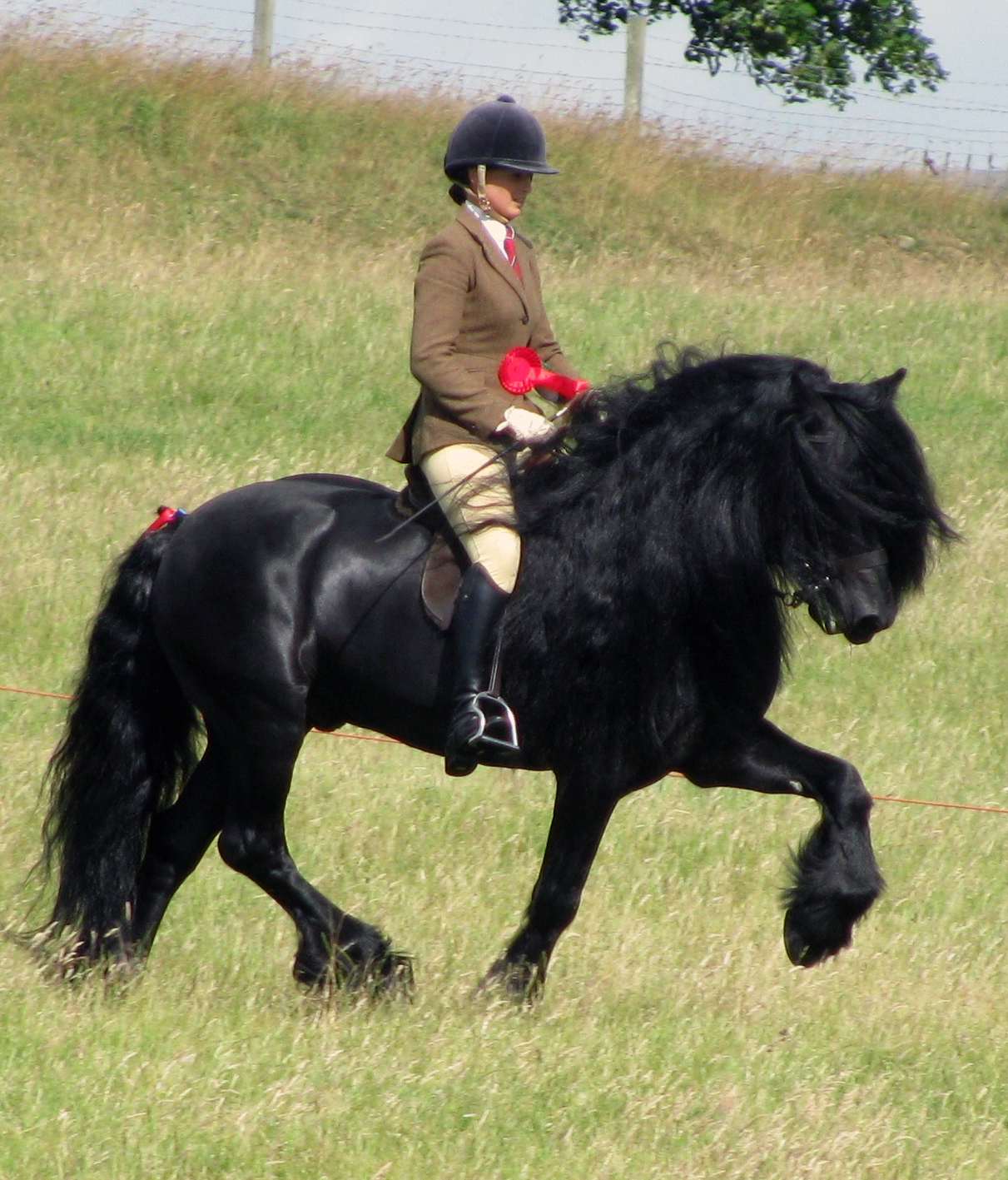 Ridden Dales Pony Stallion winning at the Dales Pony Society Breed show 2013